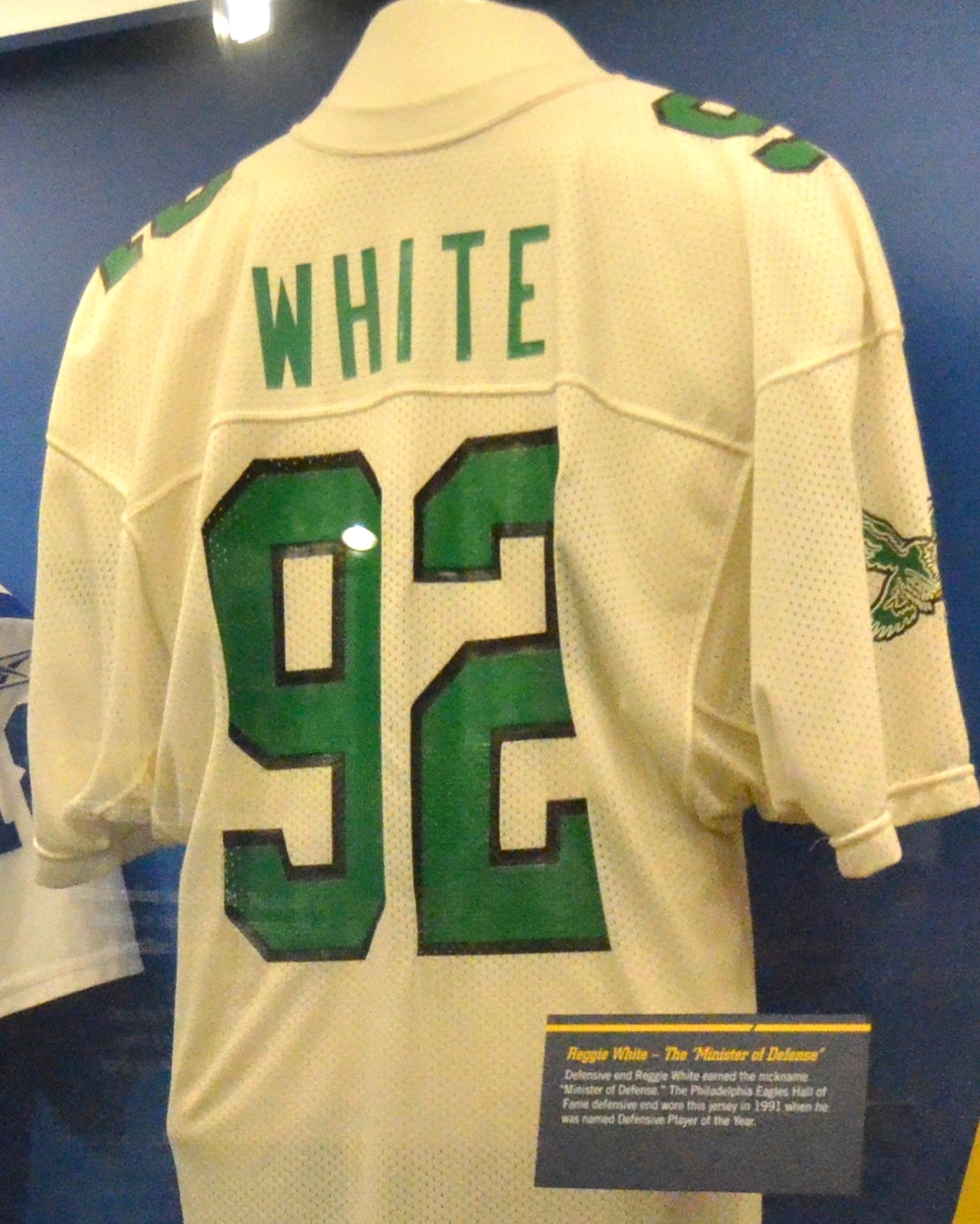 Reggie White jersey shown at Pro Football Hall of Fame in Canton, OH